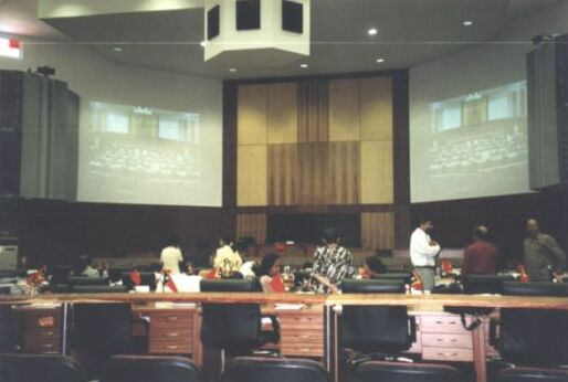 Photo by J. Patrick Fischer Parliament of Timor-Leste in Dili on 21st June 2002